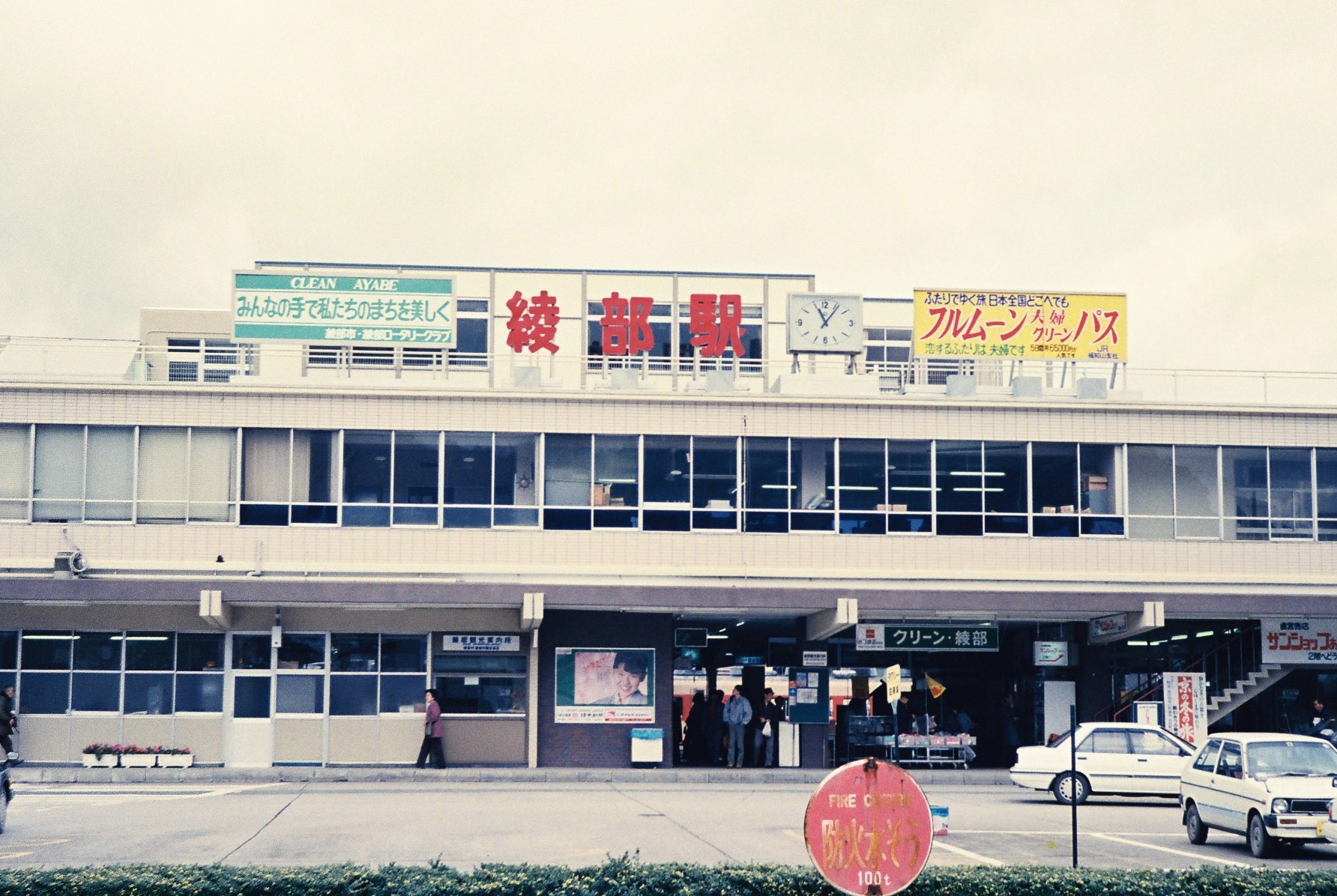 Ayabe Station